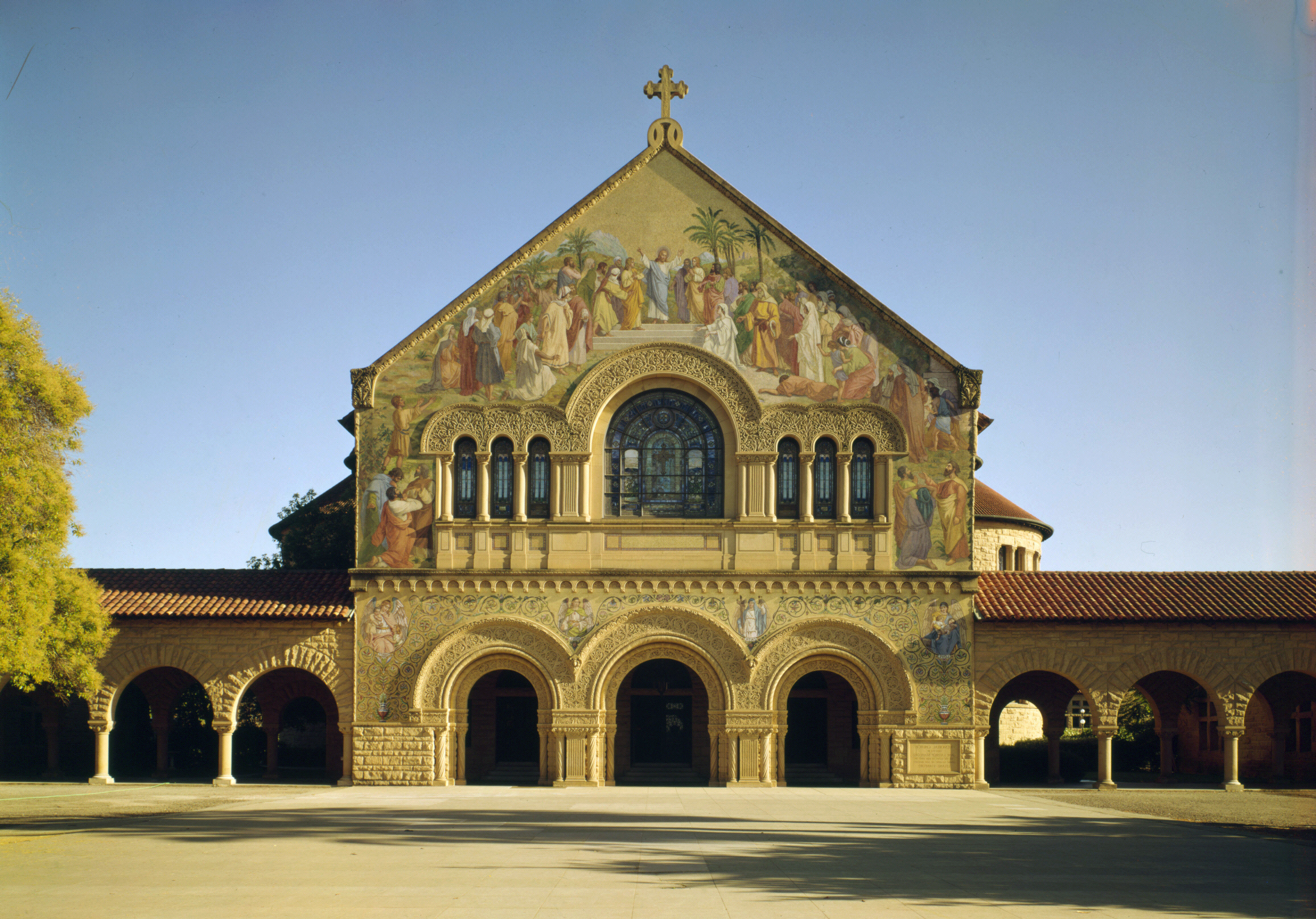 Stanford Memorial Church facade - Stanford University, Stanford, California, USA. Architect Charles A. Coolidge. Historic American Buildings Survey—HABS image.